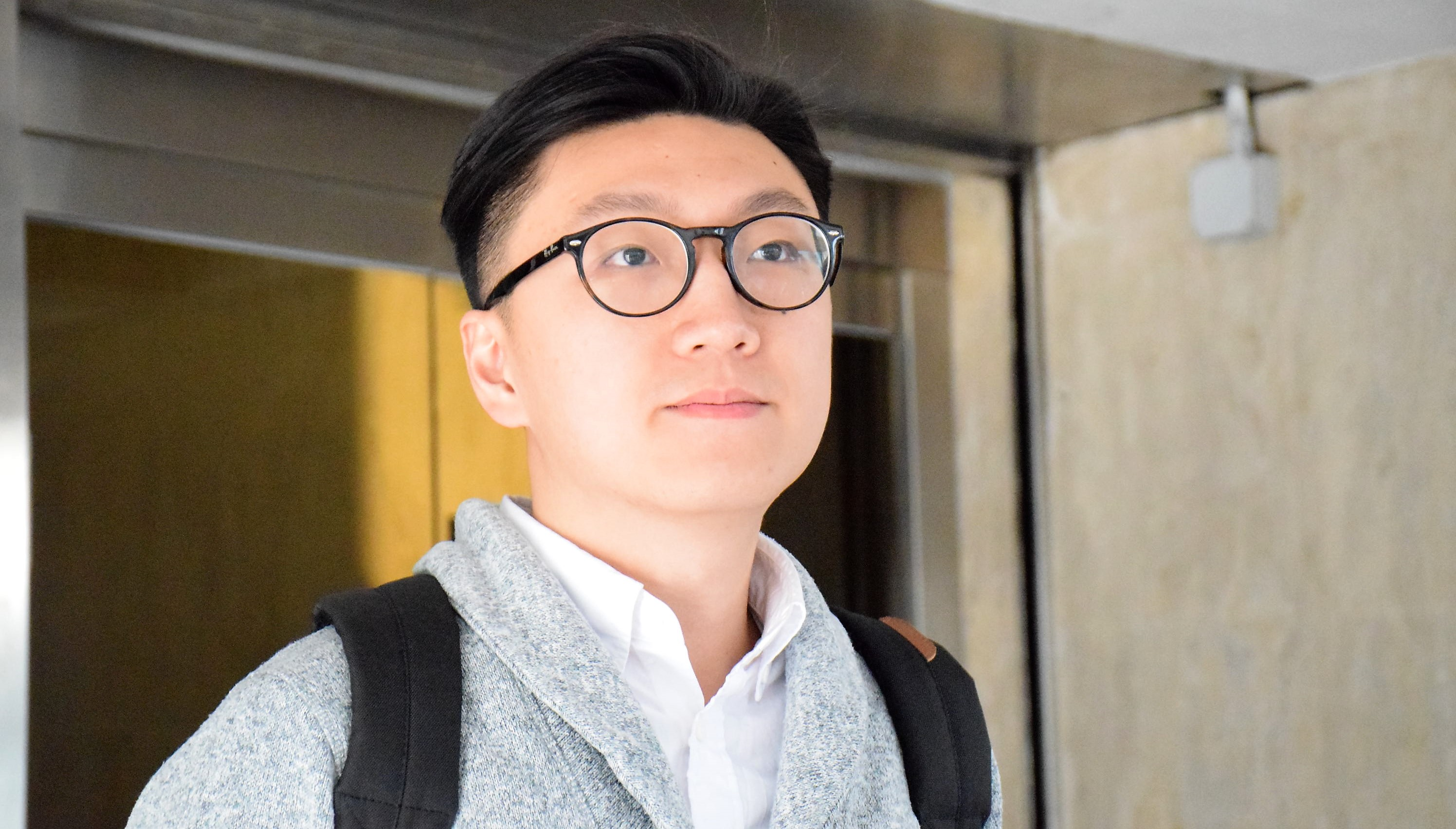 香港本土民主前線發言人梁天琦（美國之音湯惠芸拍攝）